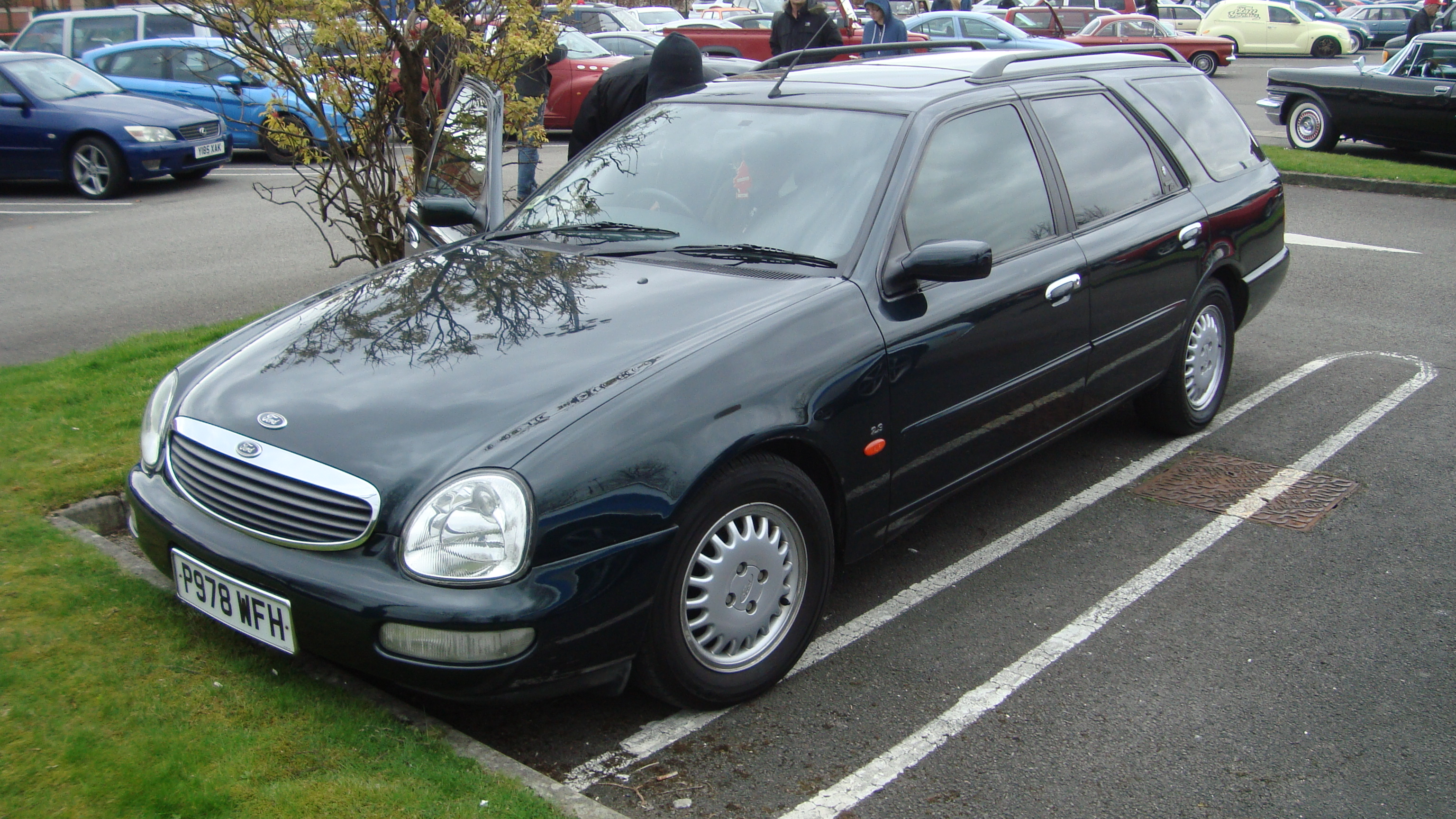 This was for sale for £600